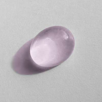 A cabochon made of rose quartz mined from Georgia's famous Hogg Mine.